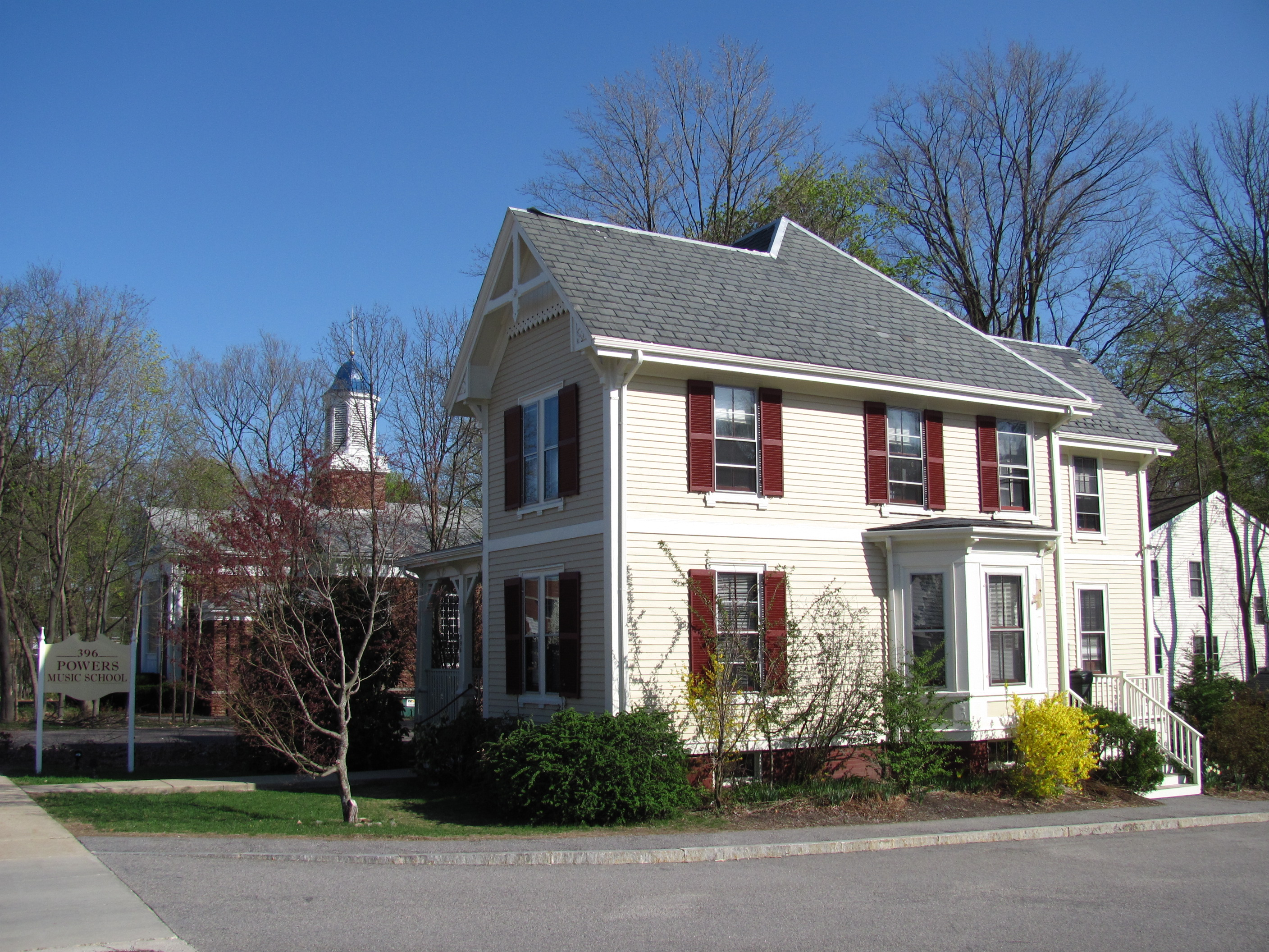 Powers Music School, Belmont Massachusetts